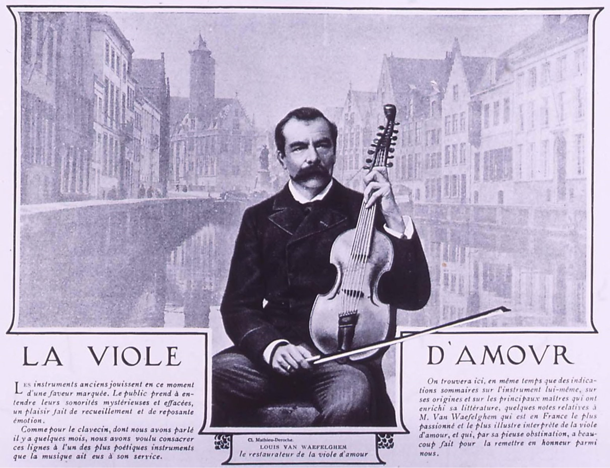 Photograph of Louis Van Waefelghem (1840–1908), Belgian composer and viola d'amore player.